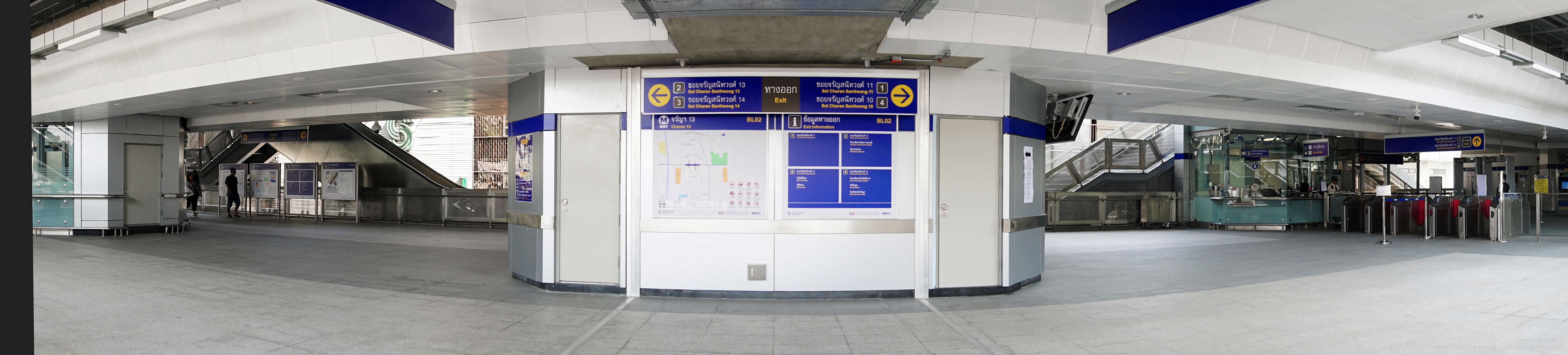 MRT Charan 13 – Ticket office floor in a panoramic view